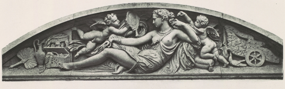 Palais du Louvre et des Tuileries. Motifs de décorations tirées des constructions exécutées au Nouveau Louvre et au Palais des Tuileries. Heliogravure